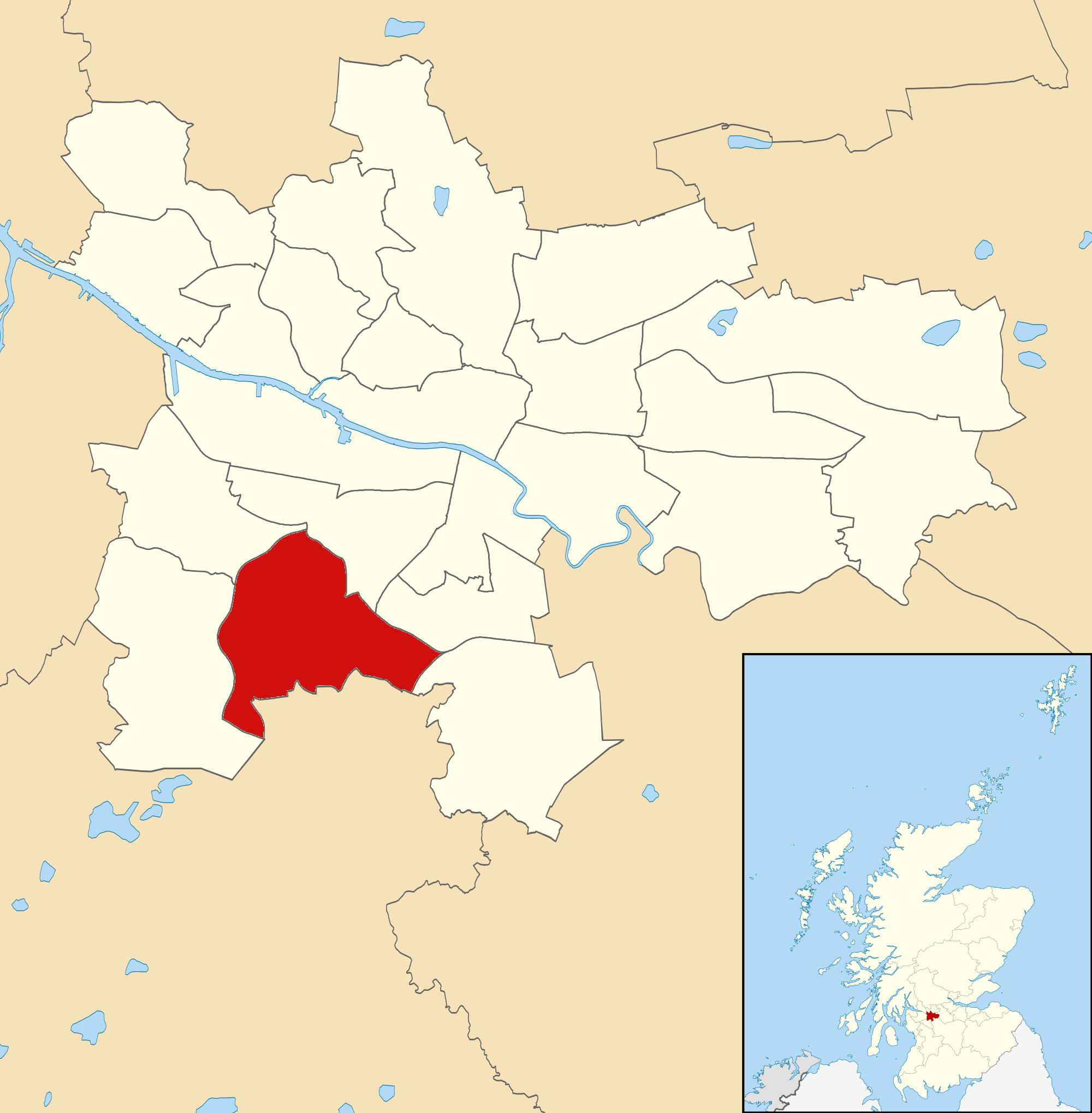 Location of Newlands/Auldburn in Glasgow